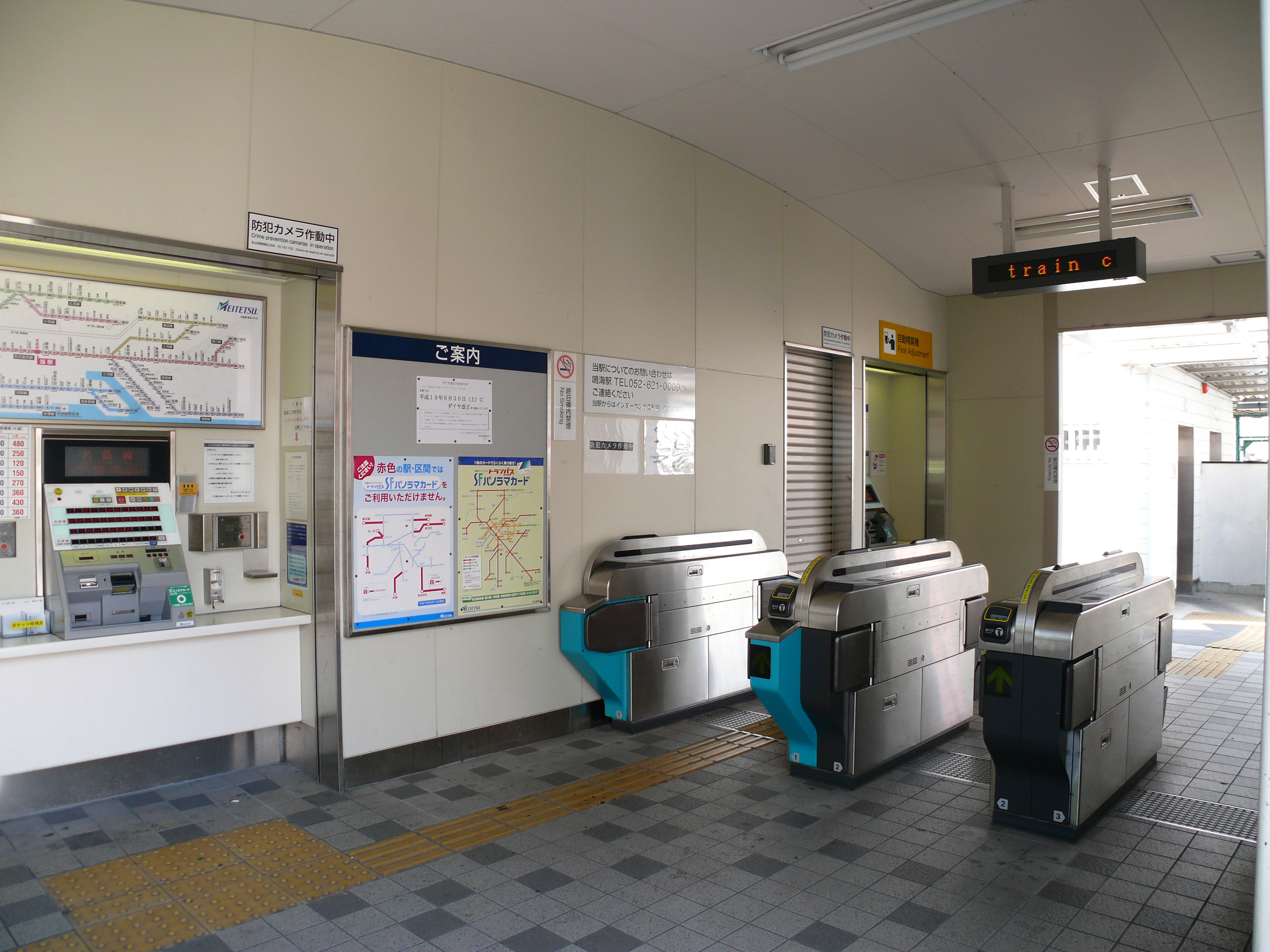 Meitetsu Moto Hoshizaki Station.